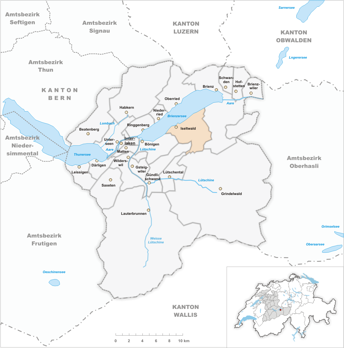 Municipality Iseltwald